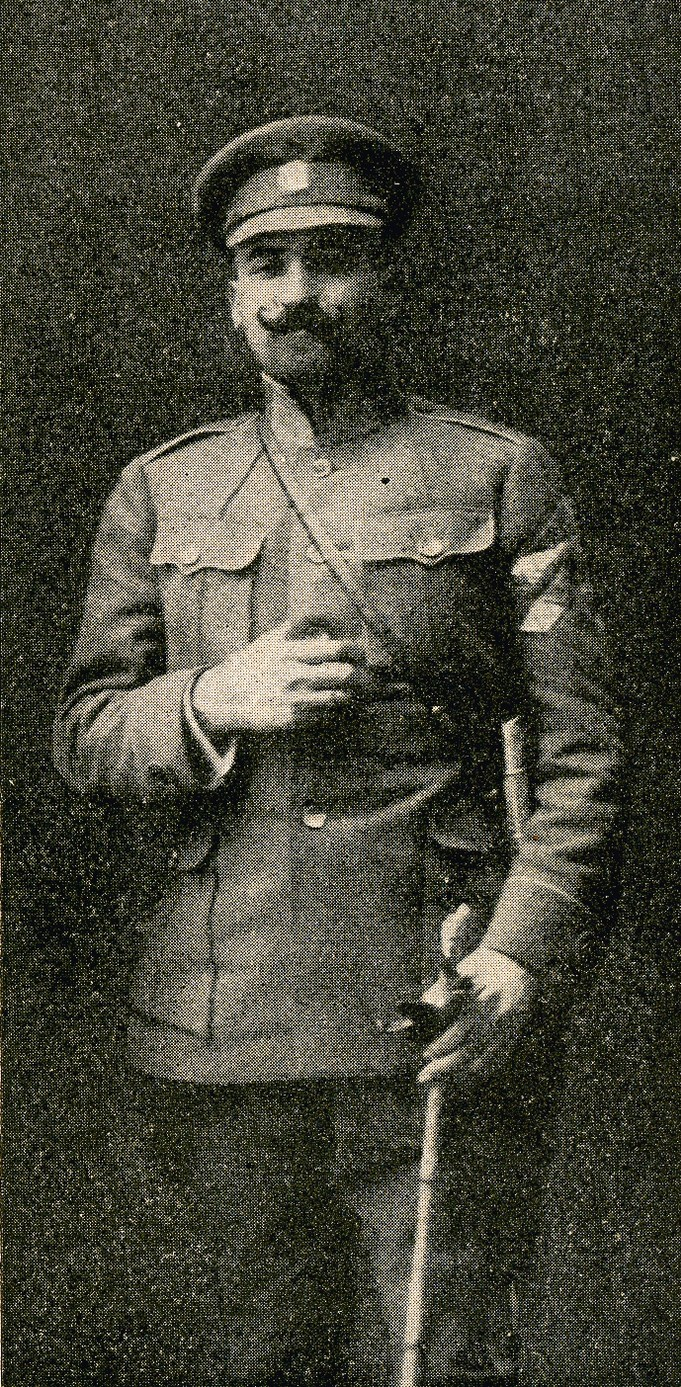 Petro Bolbochan, Ukrainian colonel